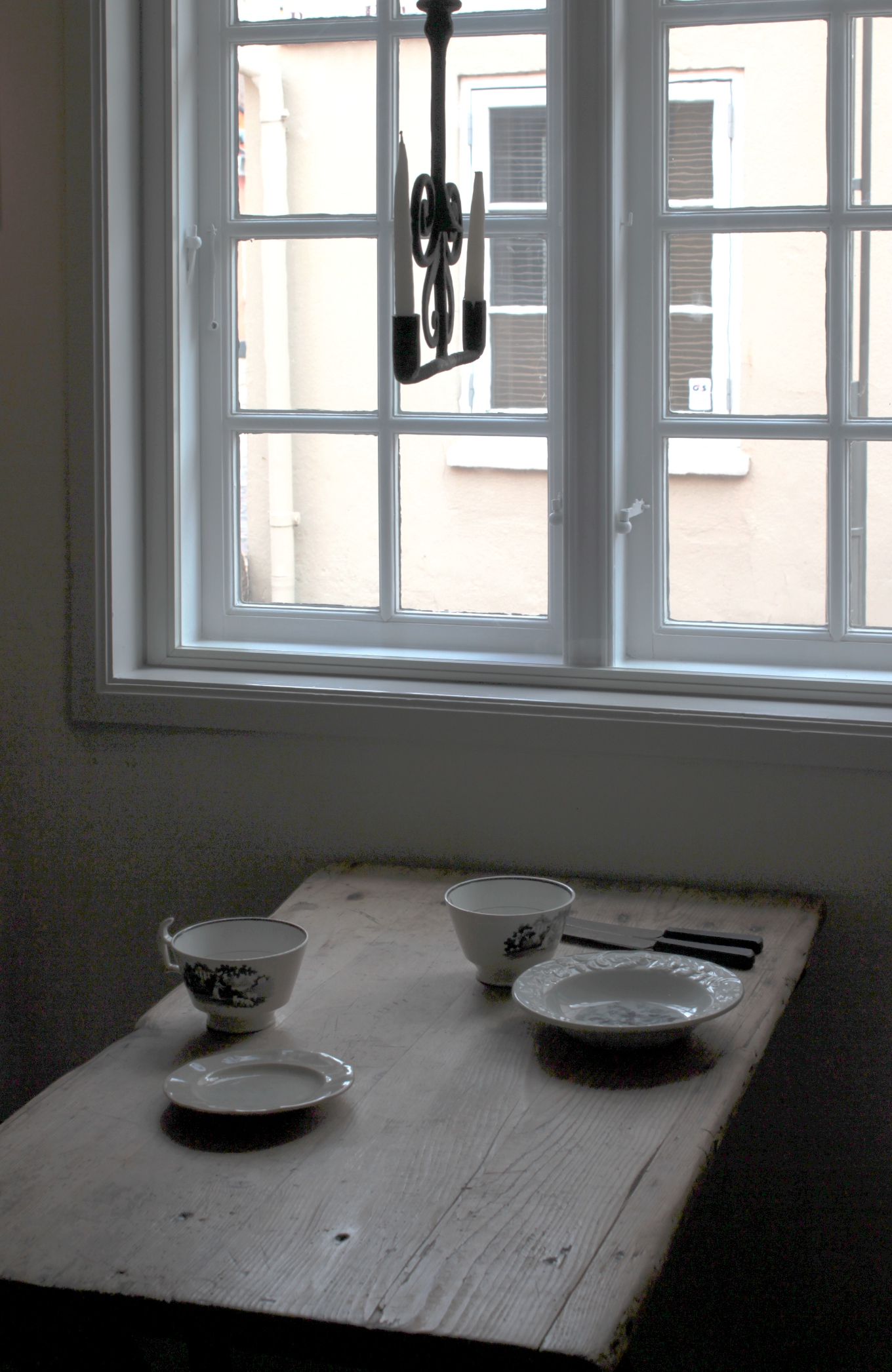 A poor family's home in Denmark about 1800. Reconstruction at the Hans Christian Andersen Museum, Odense, Denmark